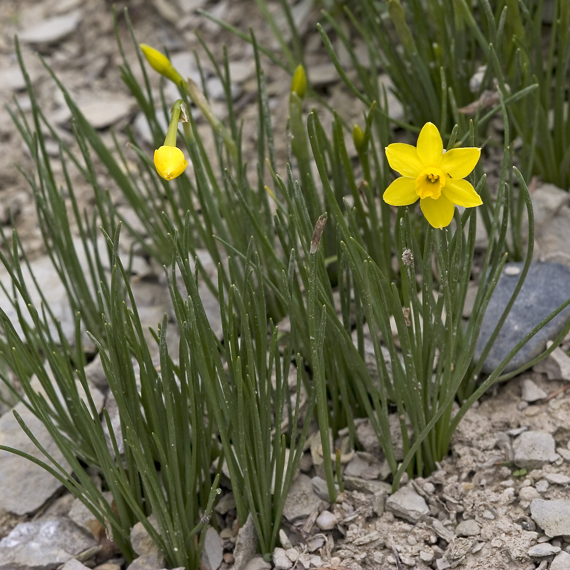 Narcissus assoanus